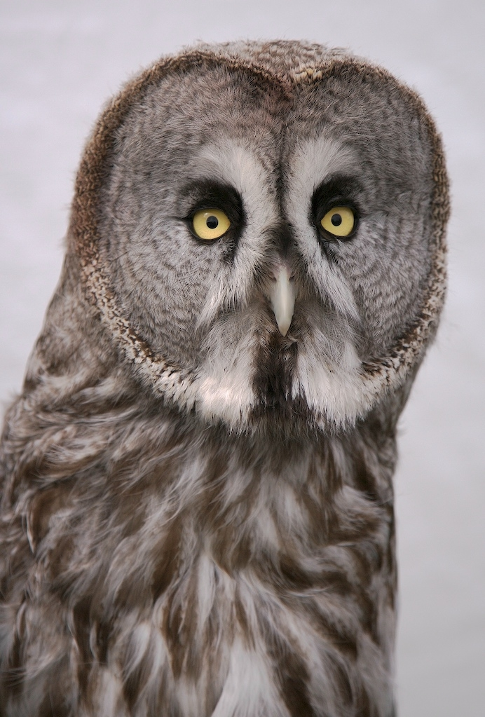 Strix nebulosa nebulosa, subad.